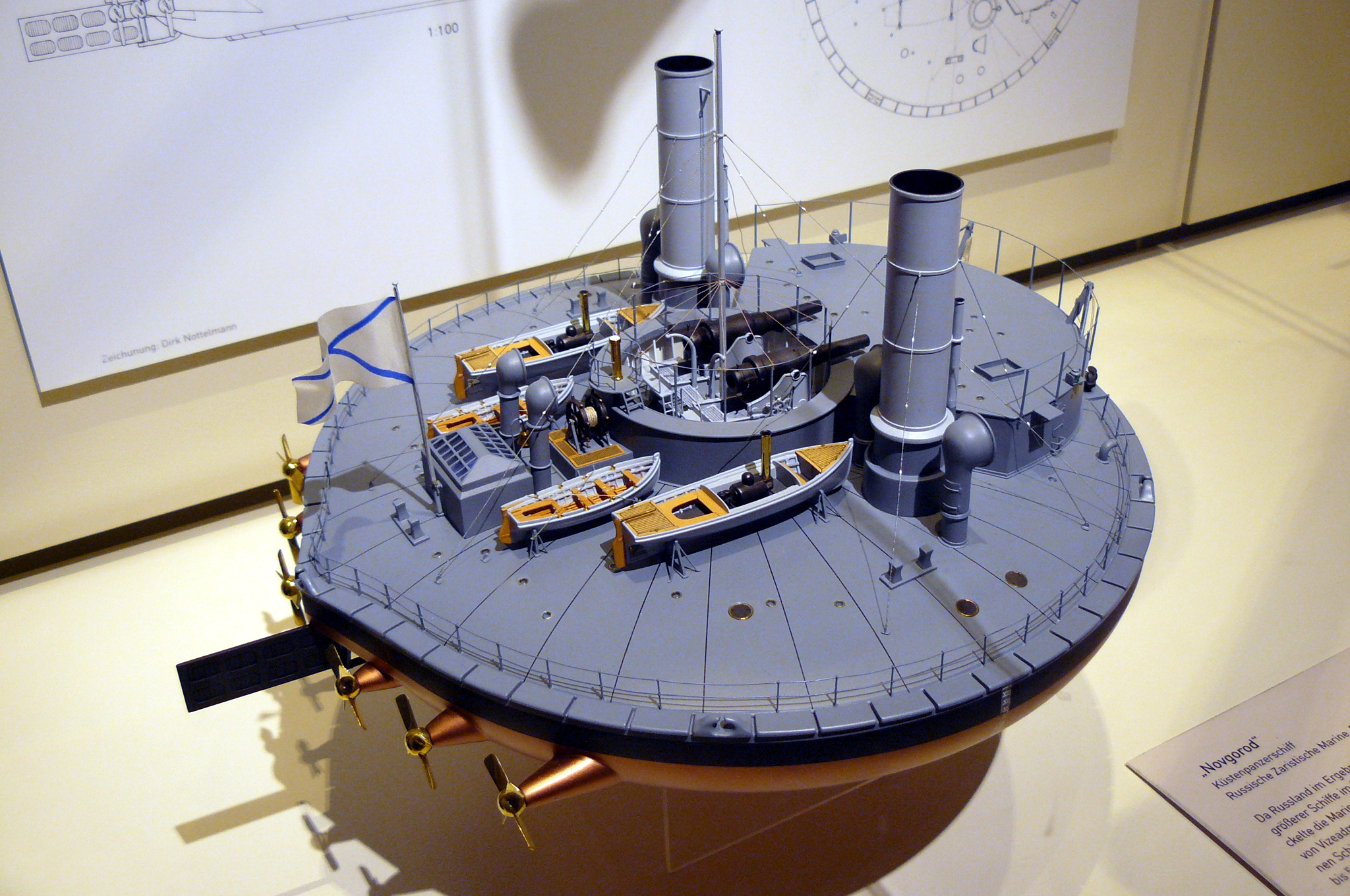 Scalemodel of the Novgorod located at the Internationales Maritimes Museum Hamburg.